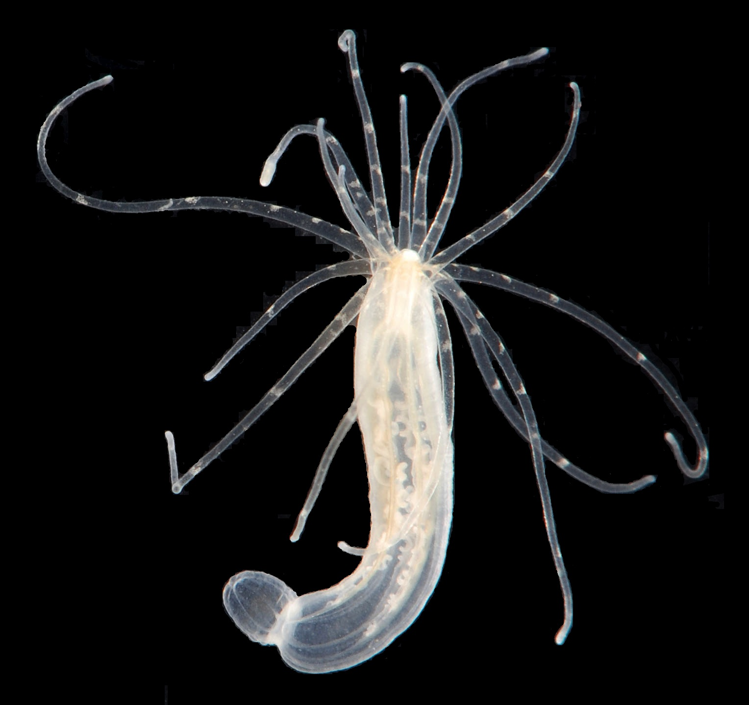 Nematostella vectensis, 6 mm. SERC, Rhode River, Edgewater, Ann Arundel County, MD - 12/05/16. Photo by Robert Aguilar, Smithsonian Environmental Research Center.